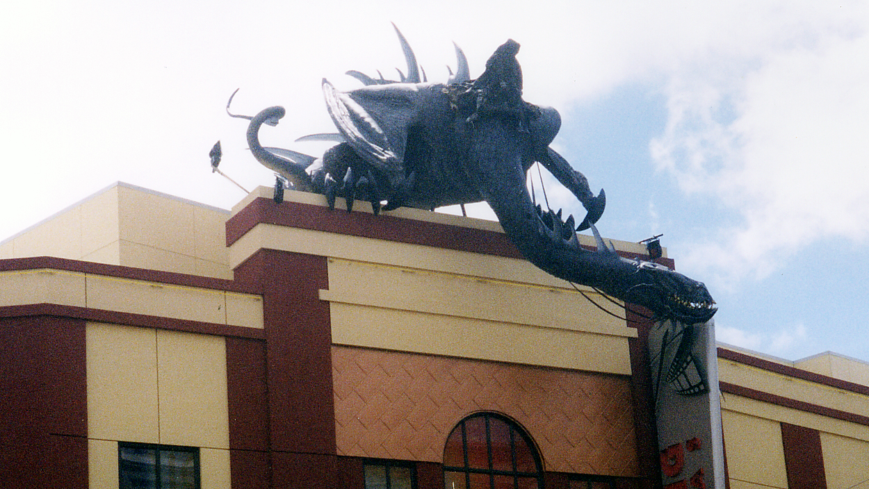 Reading Cinema Fell Beast, 'Return of the King' world premiere, Wellington.